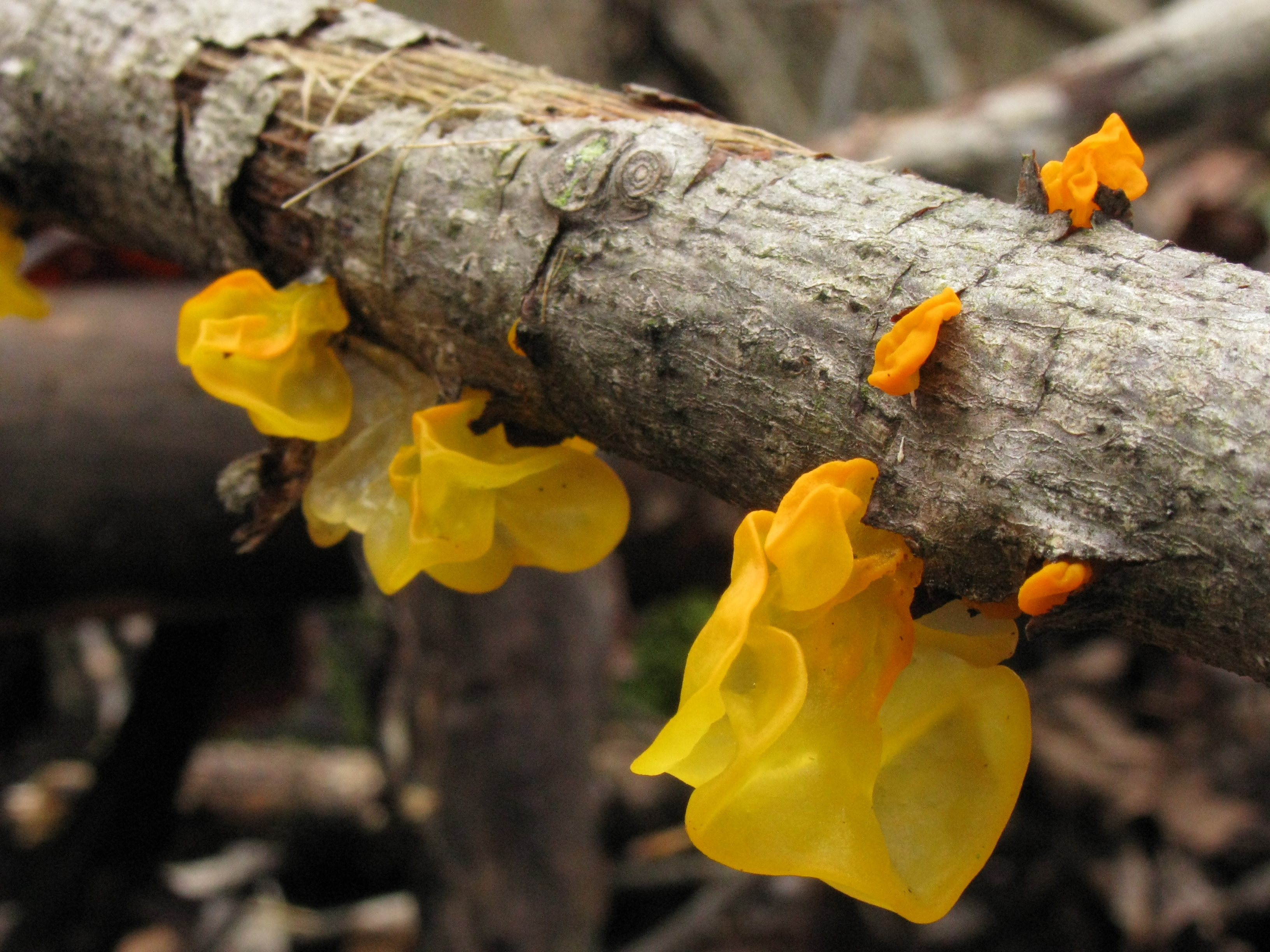 The fungus Tremella mesenterica (Schaeff.) Retz. Specimen photographed in Strouds Run State Park, Athens, Ohio, USA.